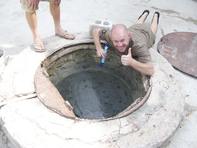 we go to extremes to demonstrate confidence in the donations we distribute (life straws demonstrated here)